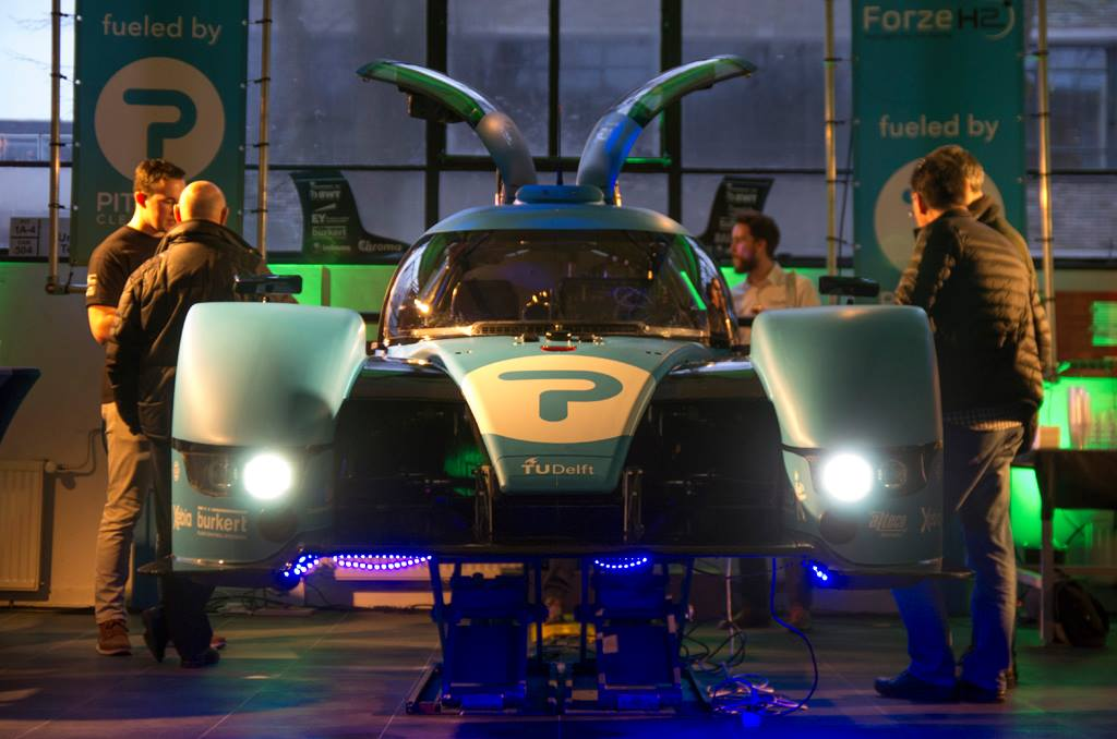 A closeup of the Forze VII during the sponsor drink held on the 21st of February 2017.